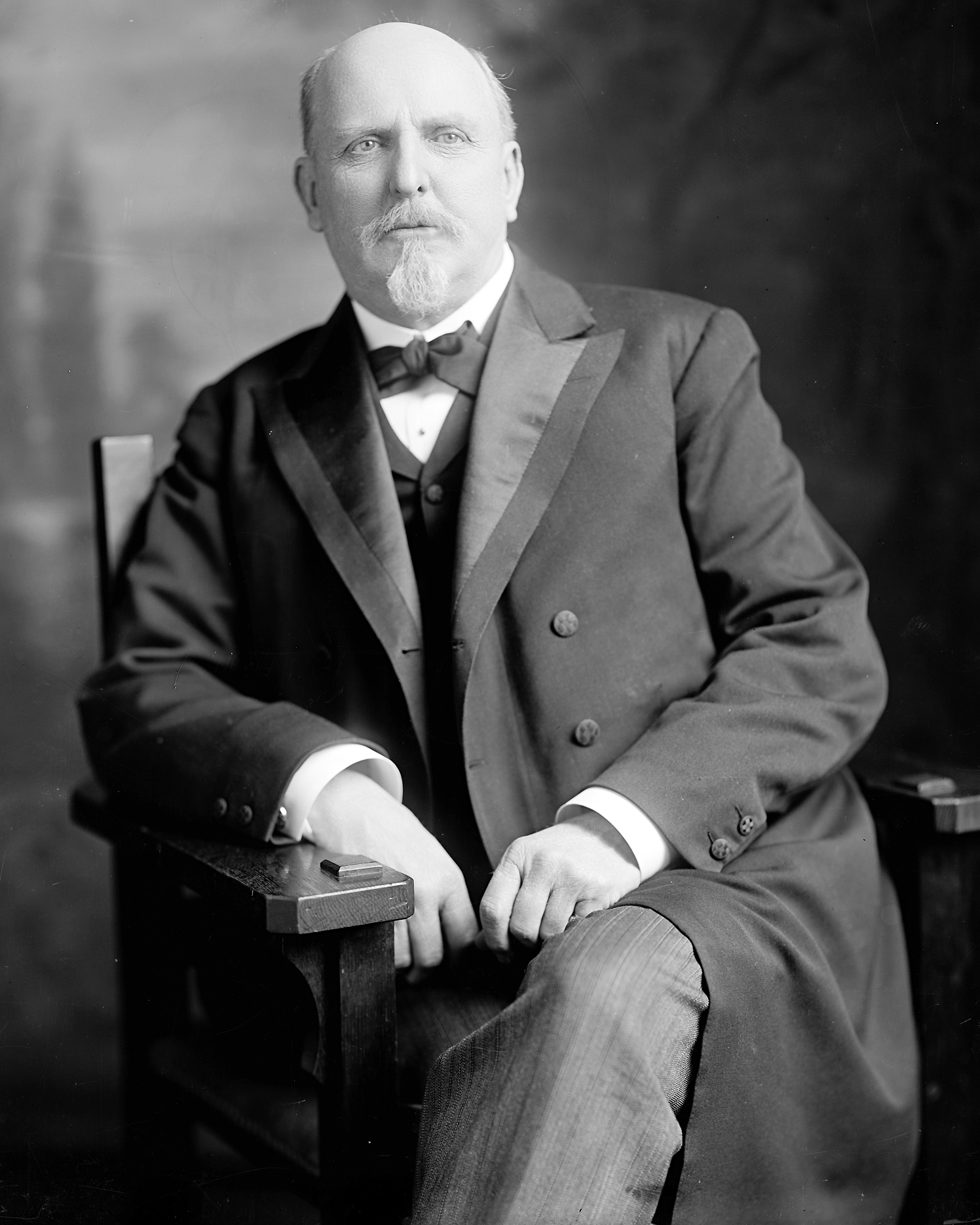 Ebenezer J. Hill, US Representative from Connecticut